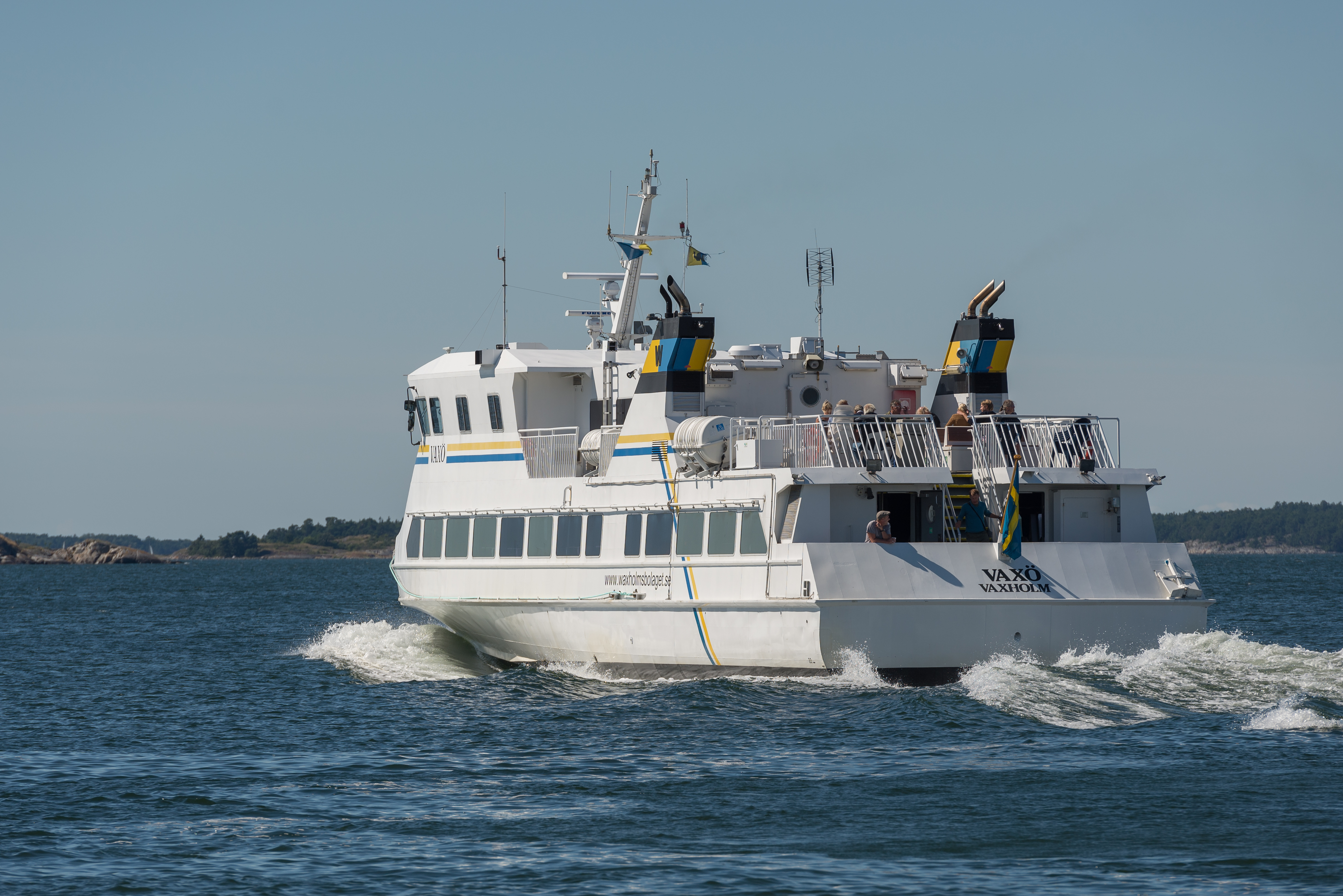 M/S Vaxö outside the island Fjärdlång in Stockholm archipelago.